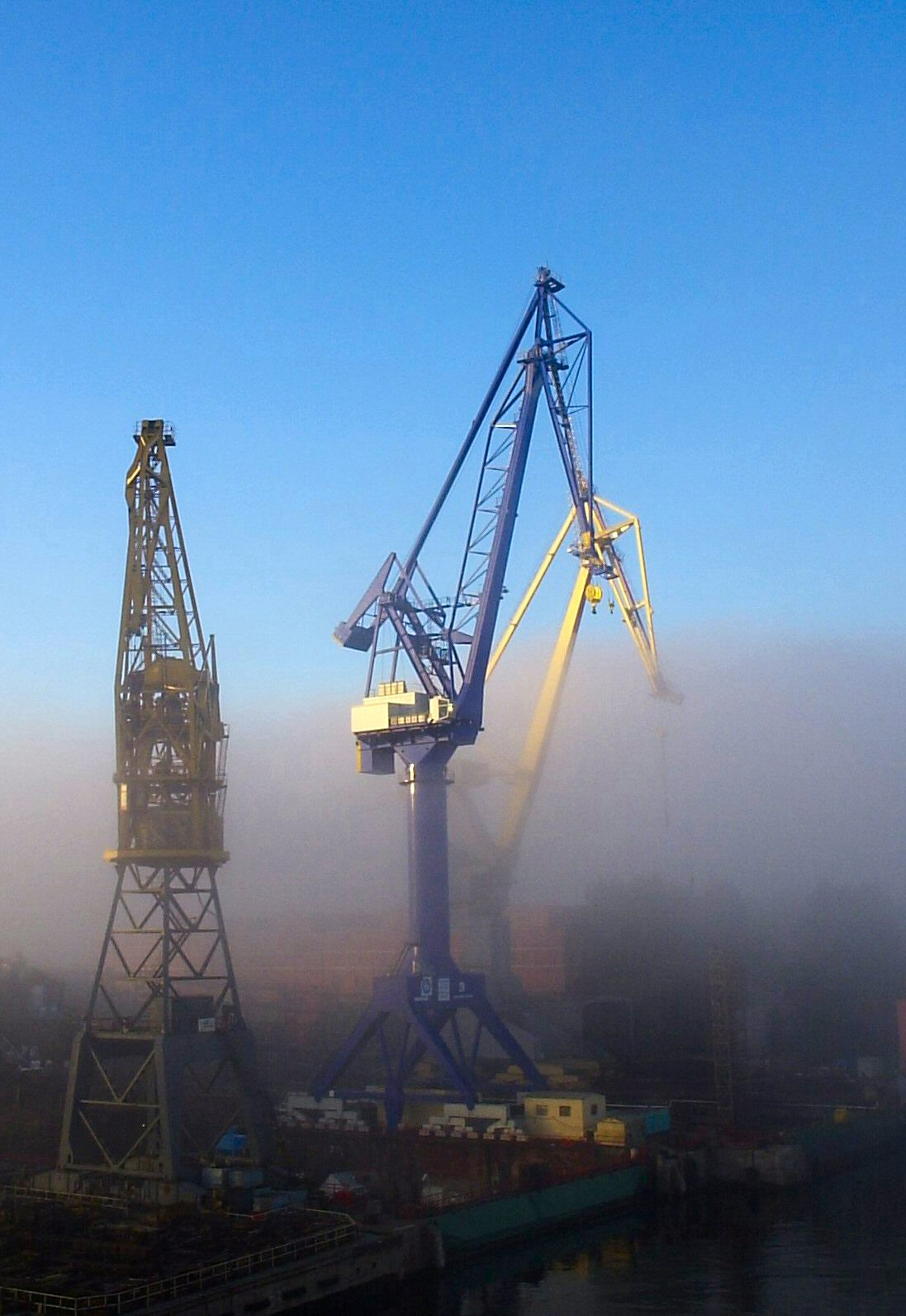 The Industrial docks of St Petersburg in the morning smog; picture taken by R Neil Marshman (c) August 2005